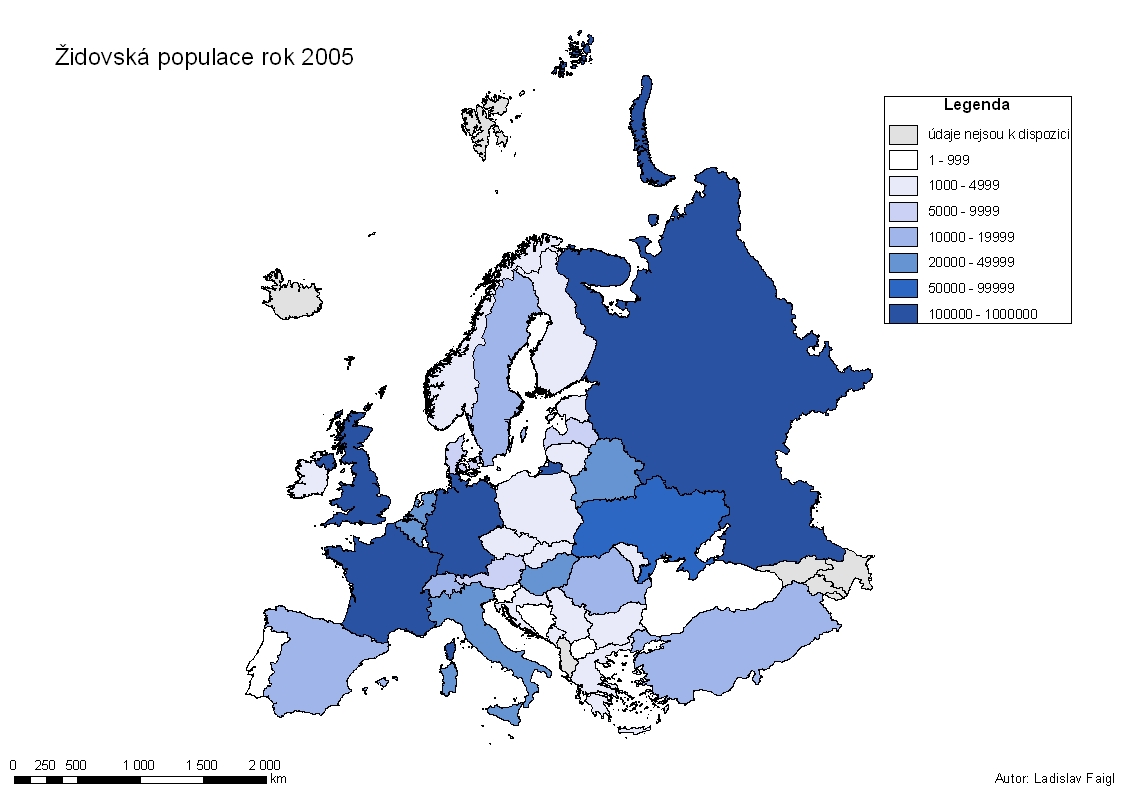 Map of Jews in Europe as of 2005 with Czech description.